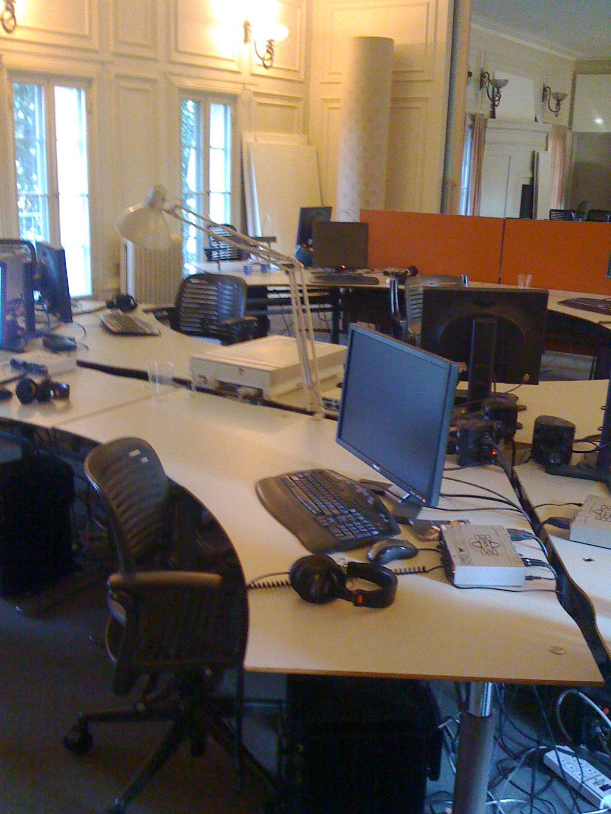 Stanford CCRMA Computer Lab